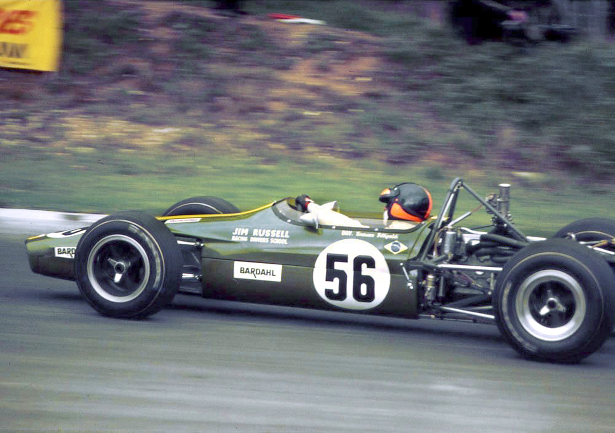 Released under GFDL with the kind permission of the creator of this image, Gerald Swan. The complete set of photos can be seen at the website